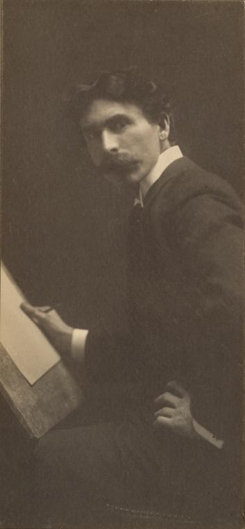 Ernest Thompson Seton, American writer and Scouting movement promoter